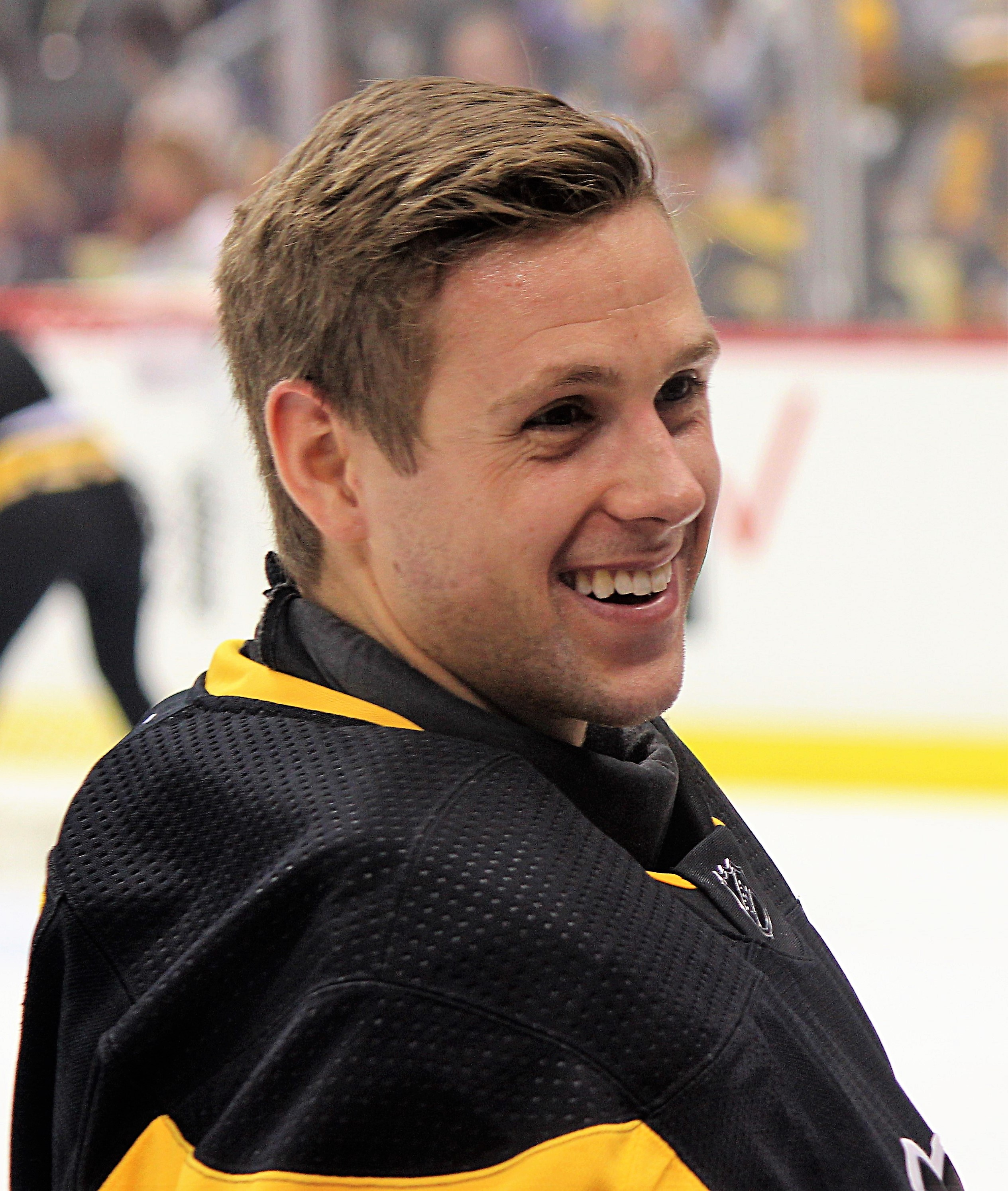 Pittsburgh Penguins goalie Casey DeSmith during a game against the Toronto Maple Leafs, December 9, 2017, at PPG Paints Arena in Pittsburgh, PA.